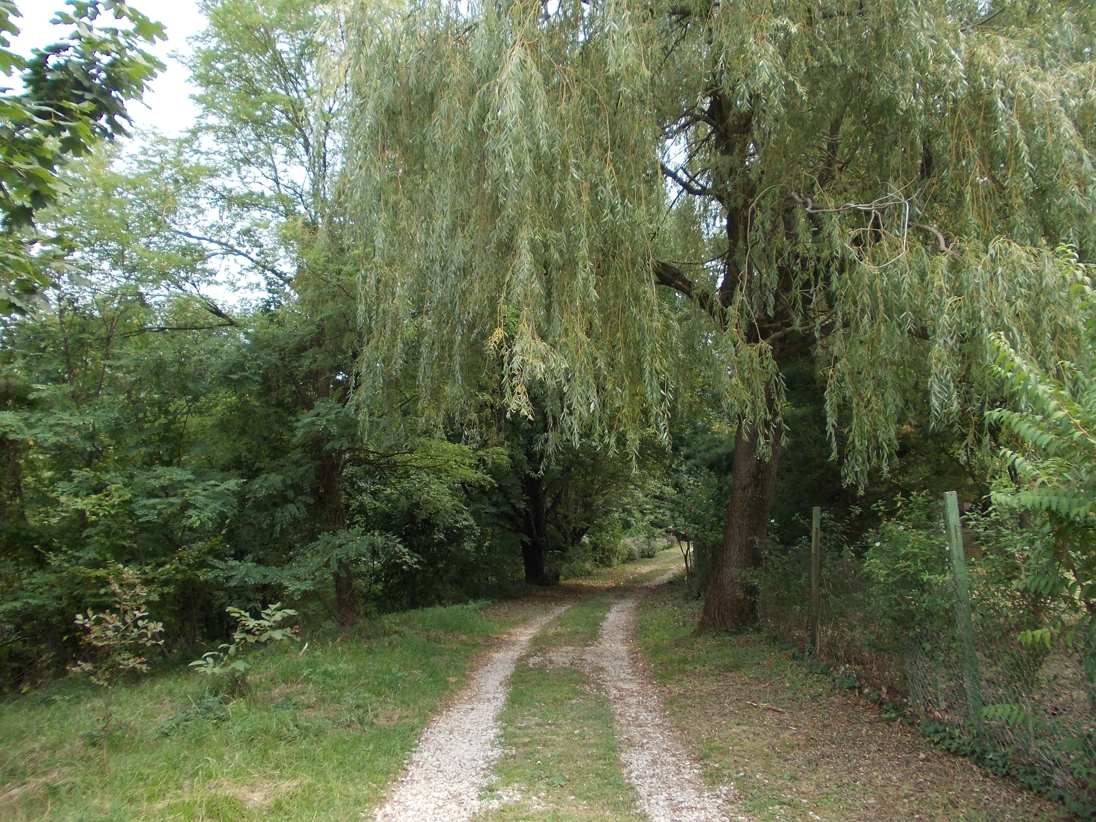 Dežno pri Podlehniku